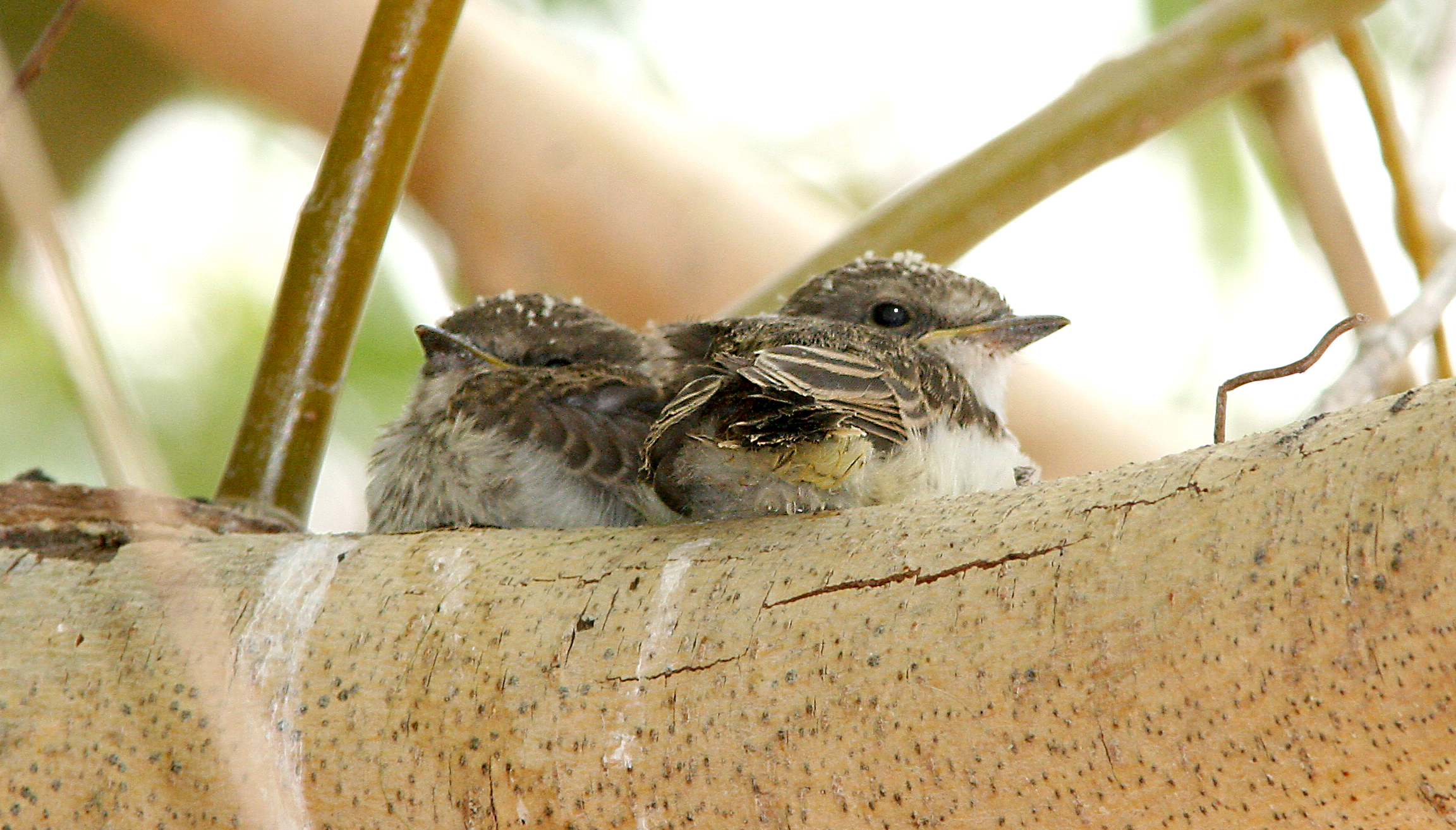 Three vermilion flycatcher nestlings in a tree